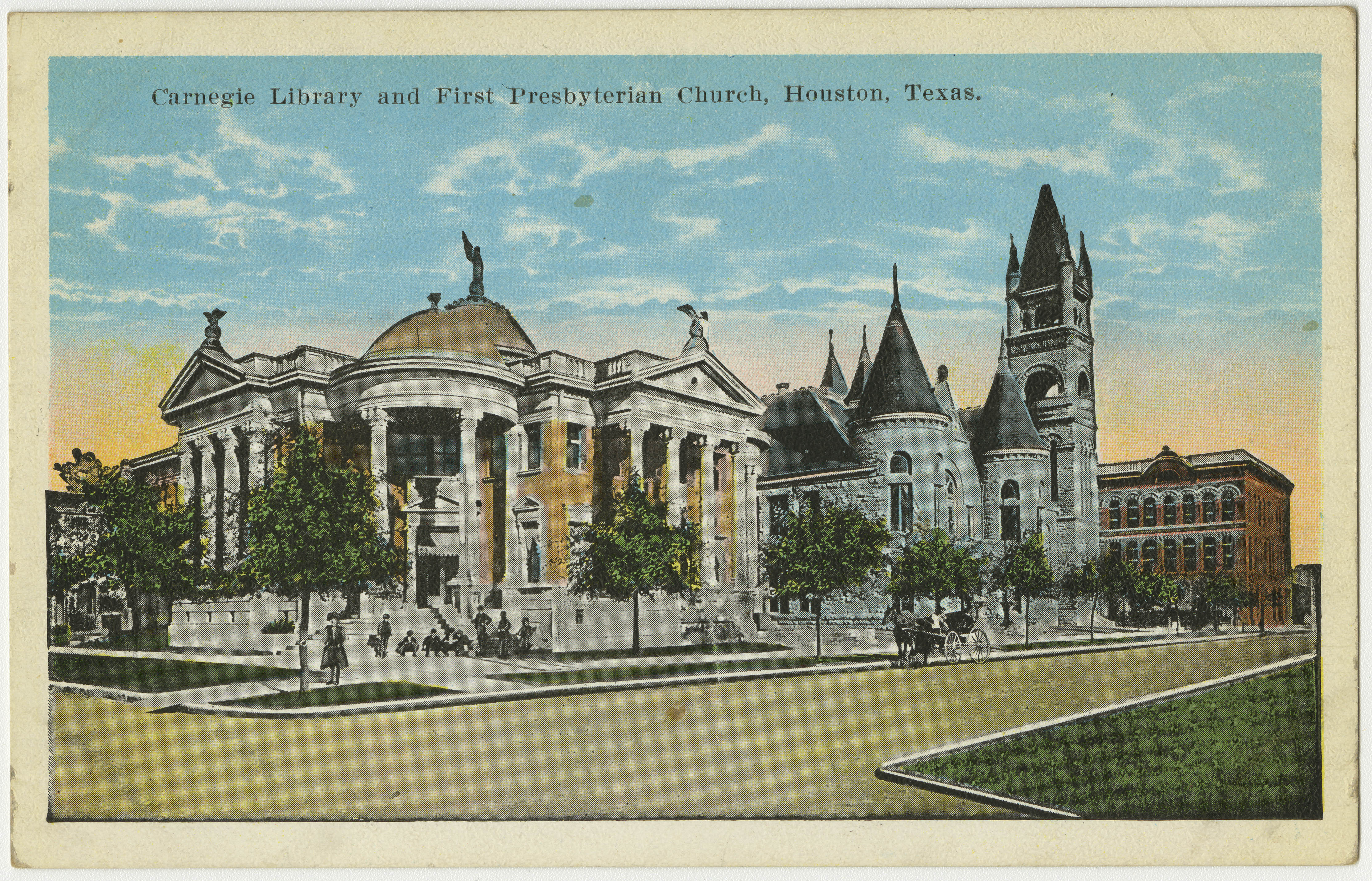 Carnegie Library and First Presbyterian Church in Houston, Texas from a pre-1923 postcard From RG 428, Postcard Collection, Presbyterian Historical Society, Philadelphia, Pennsylvania.